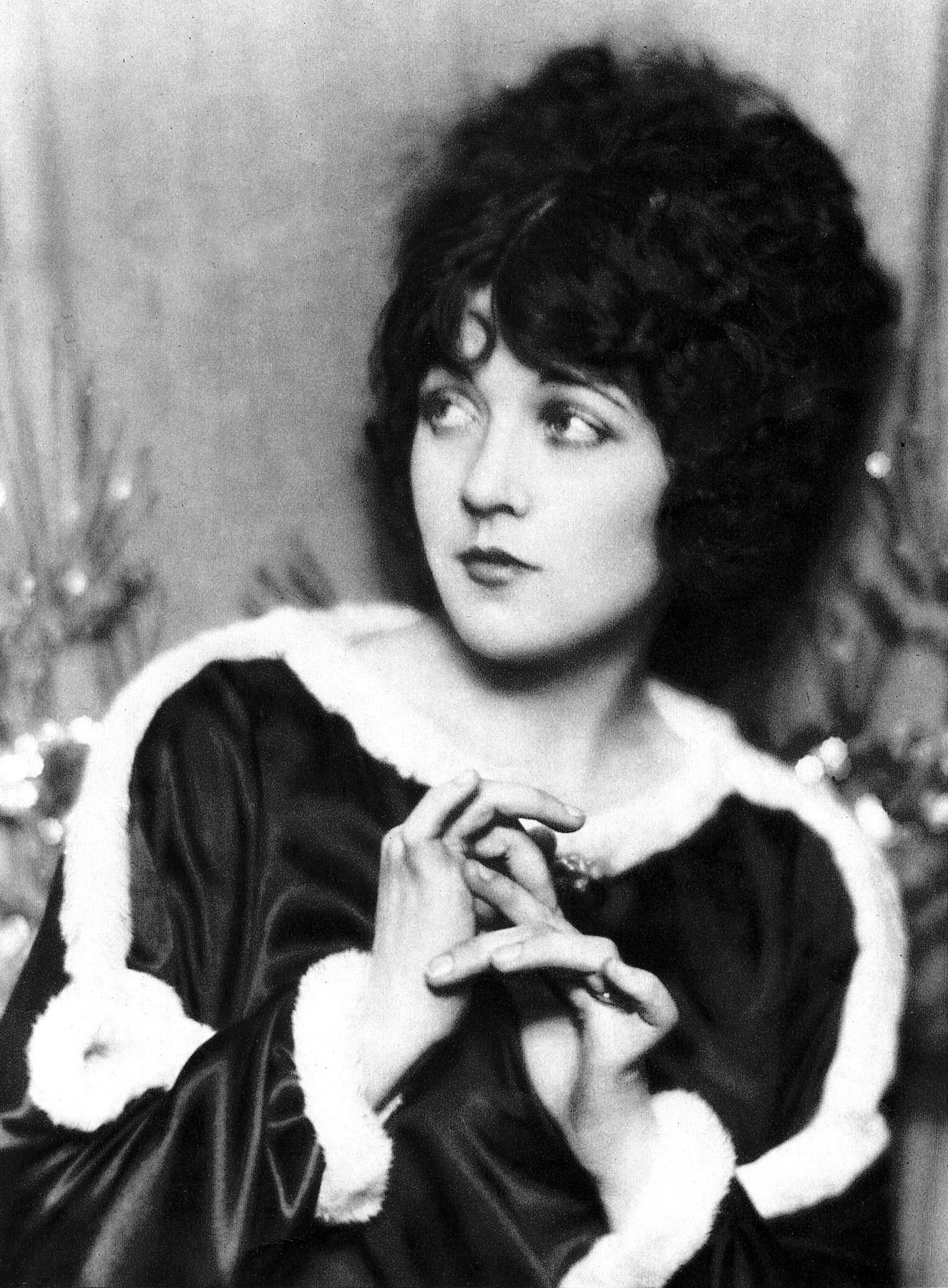 Publicity photo of Marie Prevost from Stars of the Photoplay